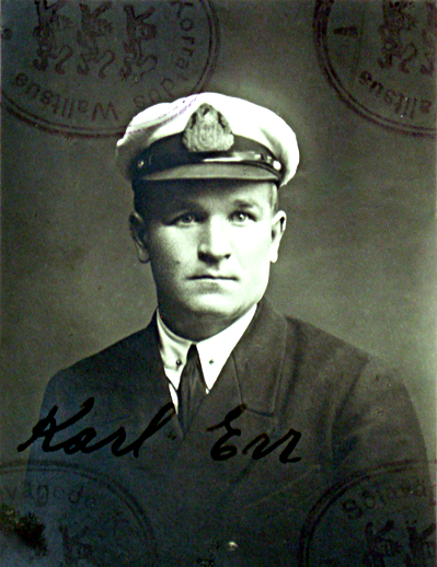 Leutnant Karl Err in 1920.